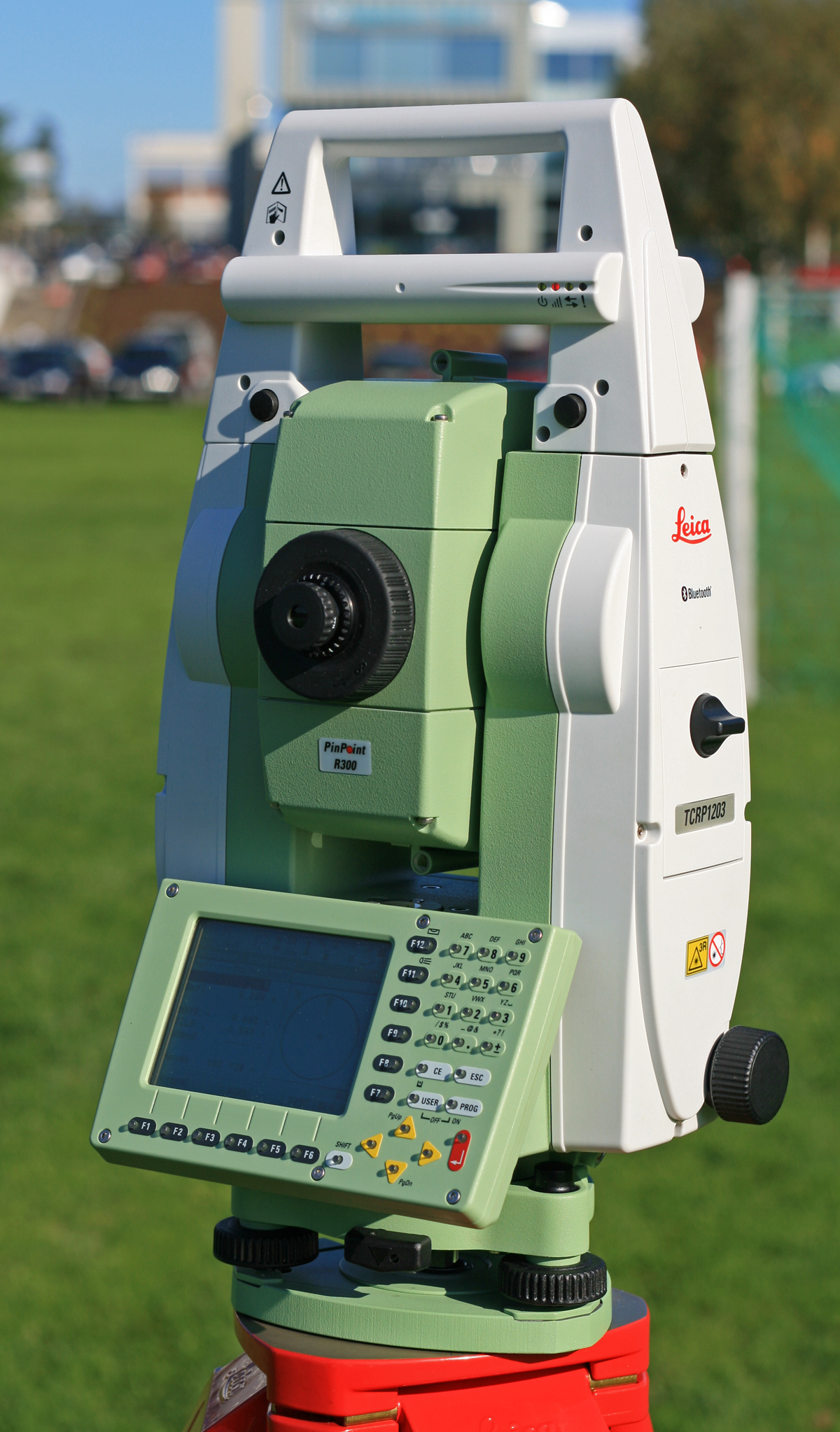 Leica TCRP 1203 total station (TPS)